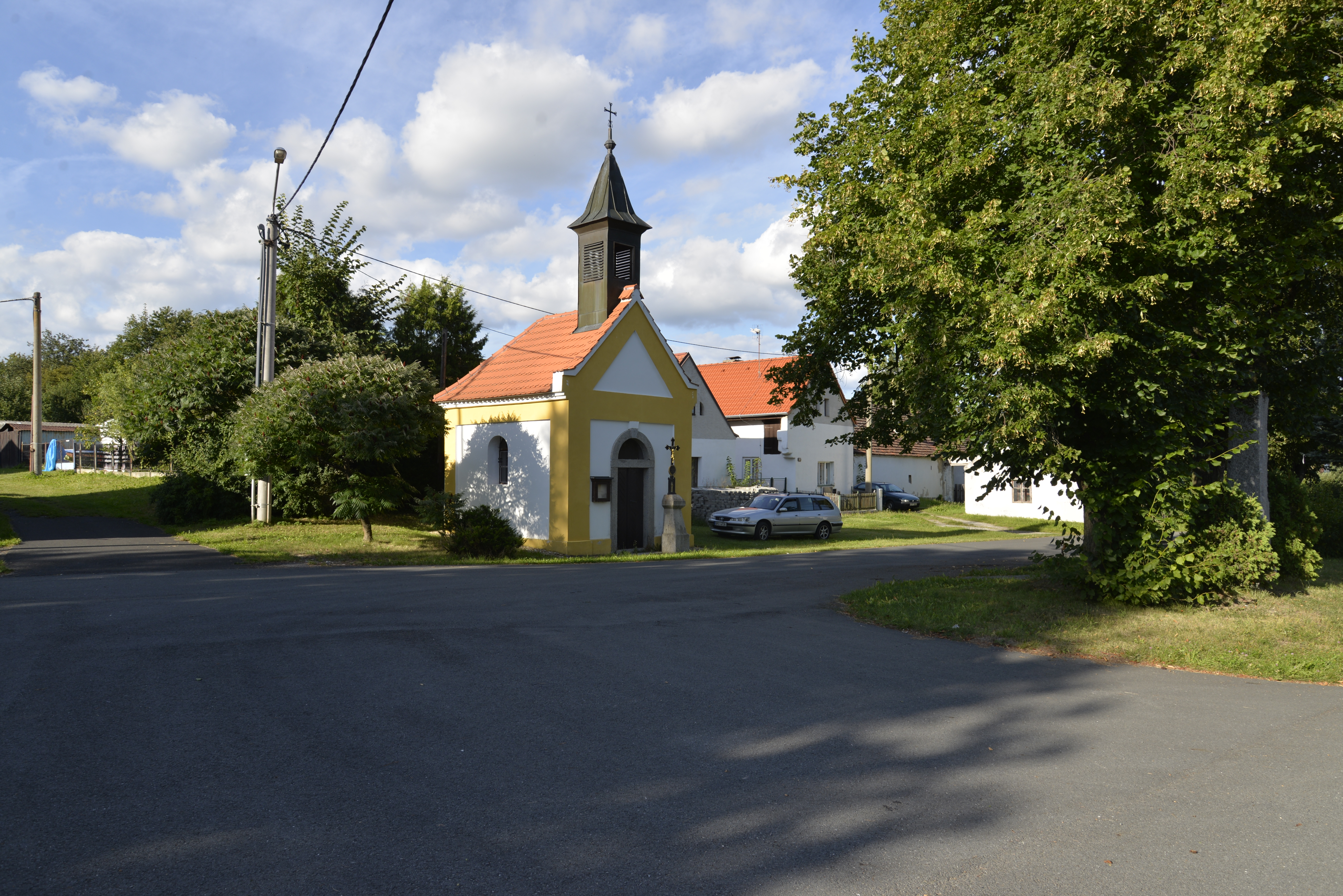 Hliněný Újezd is small village, part of municipality Malý Bor in Klatovy District, village green